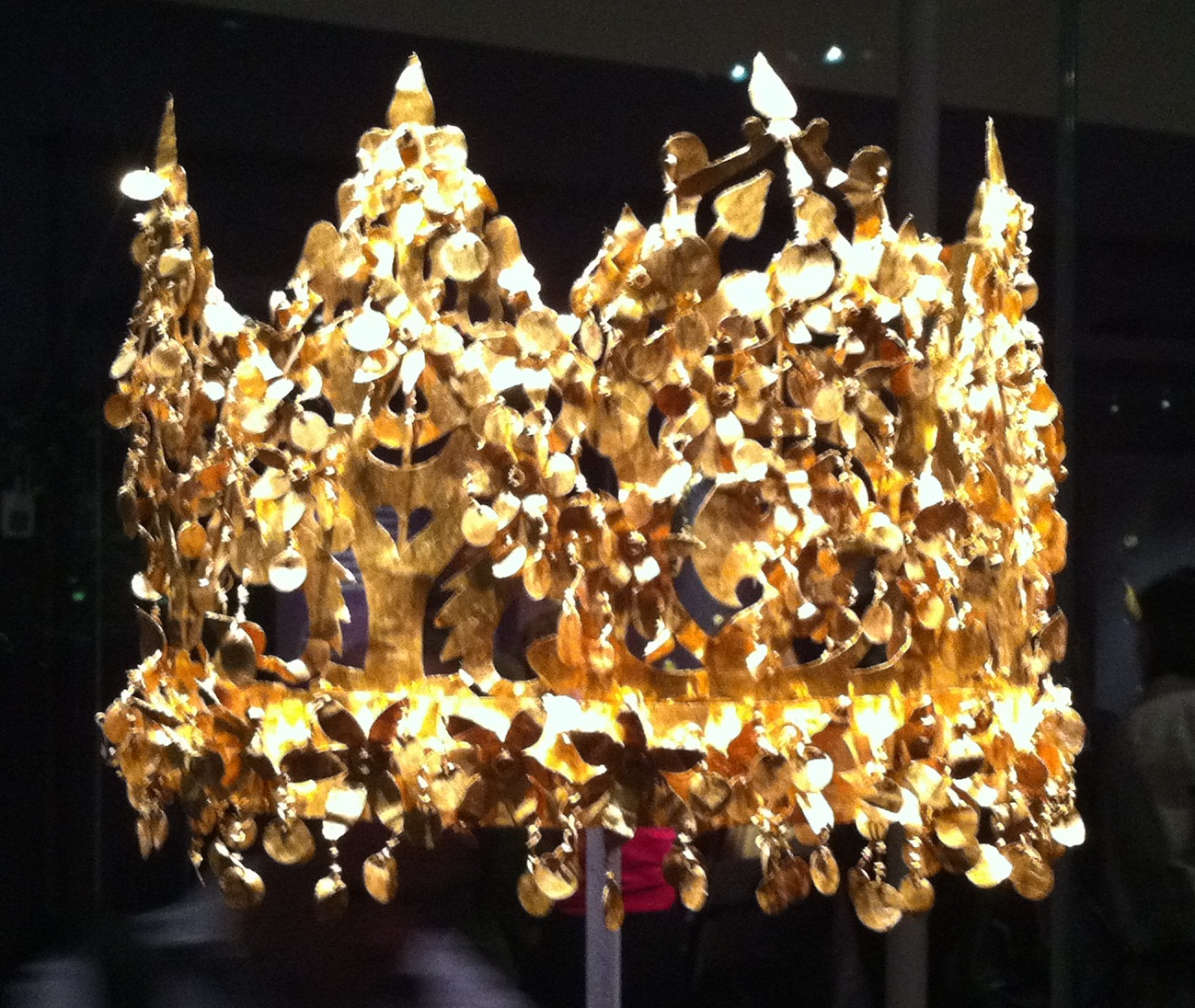 Crown, Tillya Tepe, Tomb VI, Second quarter of the 1st century A.D., Gold, imitation turquoise, National Museum of Afghanistan, Personal photograph 2011, British Museum.